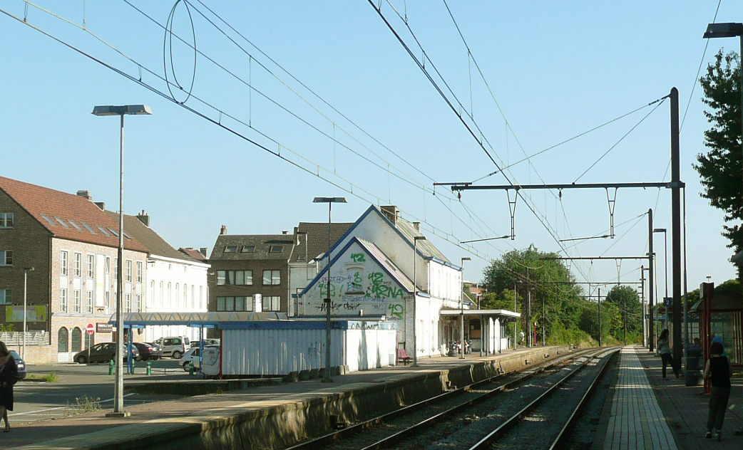 Waterloo (Belgium) Station in 2011 view to south